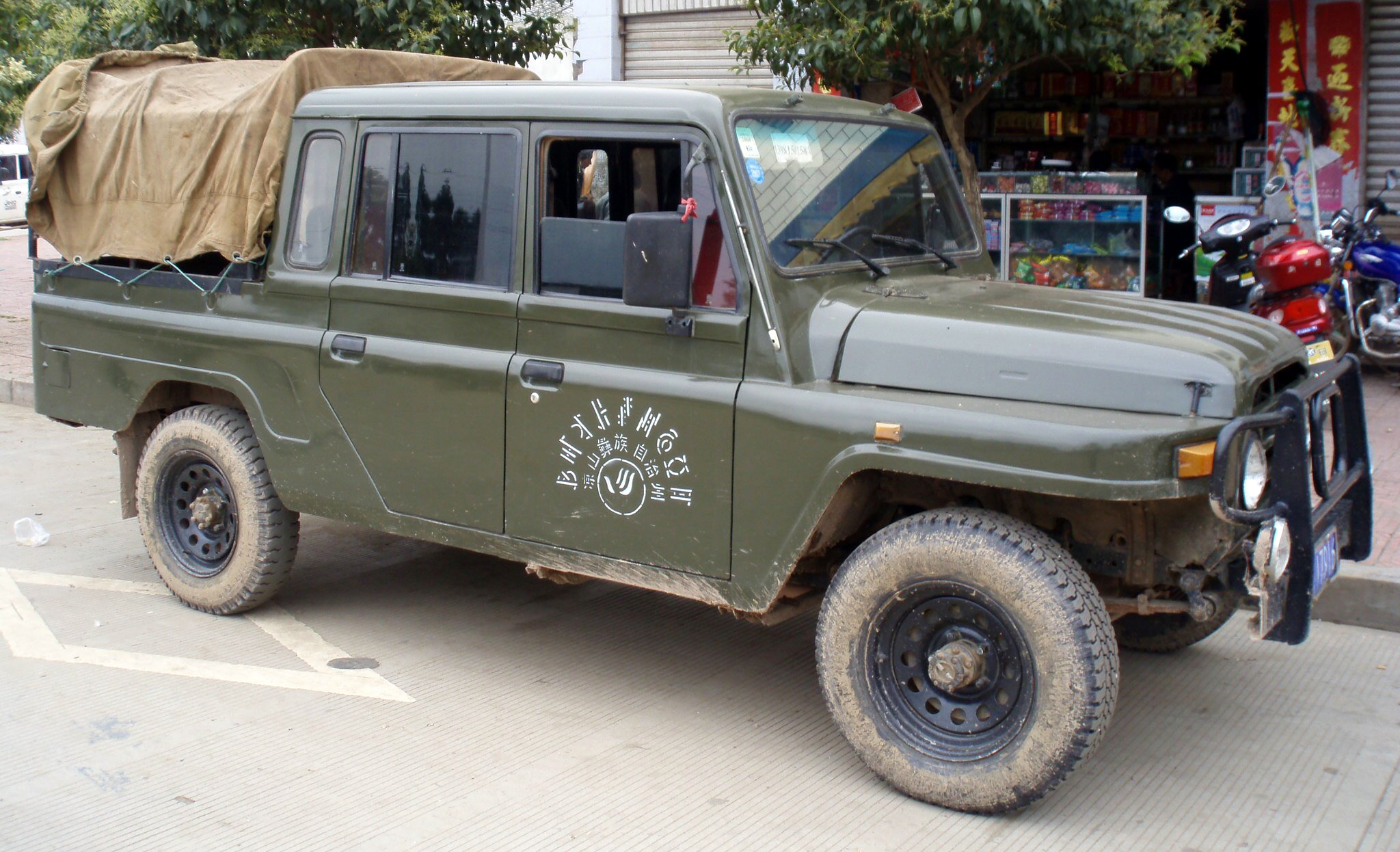 Beijing BJ2032 SAQ, combining the 1965 nose with the post-2000 doors. Belongs to the government of Liangshan Yi (thanks Tycho de Feijter) autonomous prefecture (涼山彝族自治州), photographed in Xichang in far southwestern China.